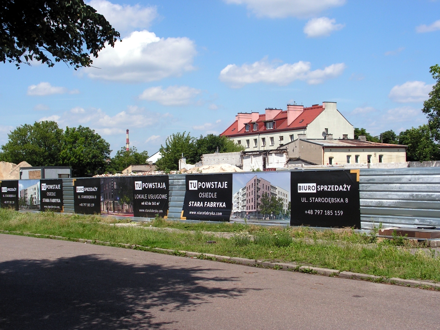 Construction site at Smolna Street in Włocławek. Here is building Stara Fabryka (Old Factory) settlement.